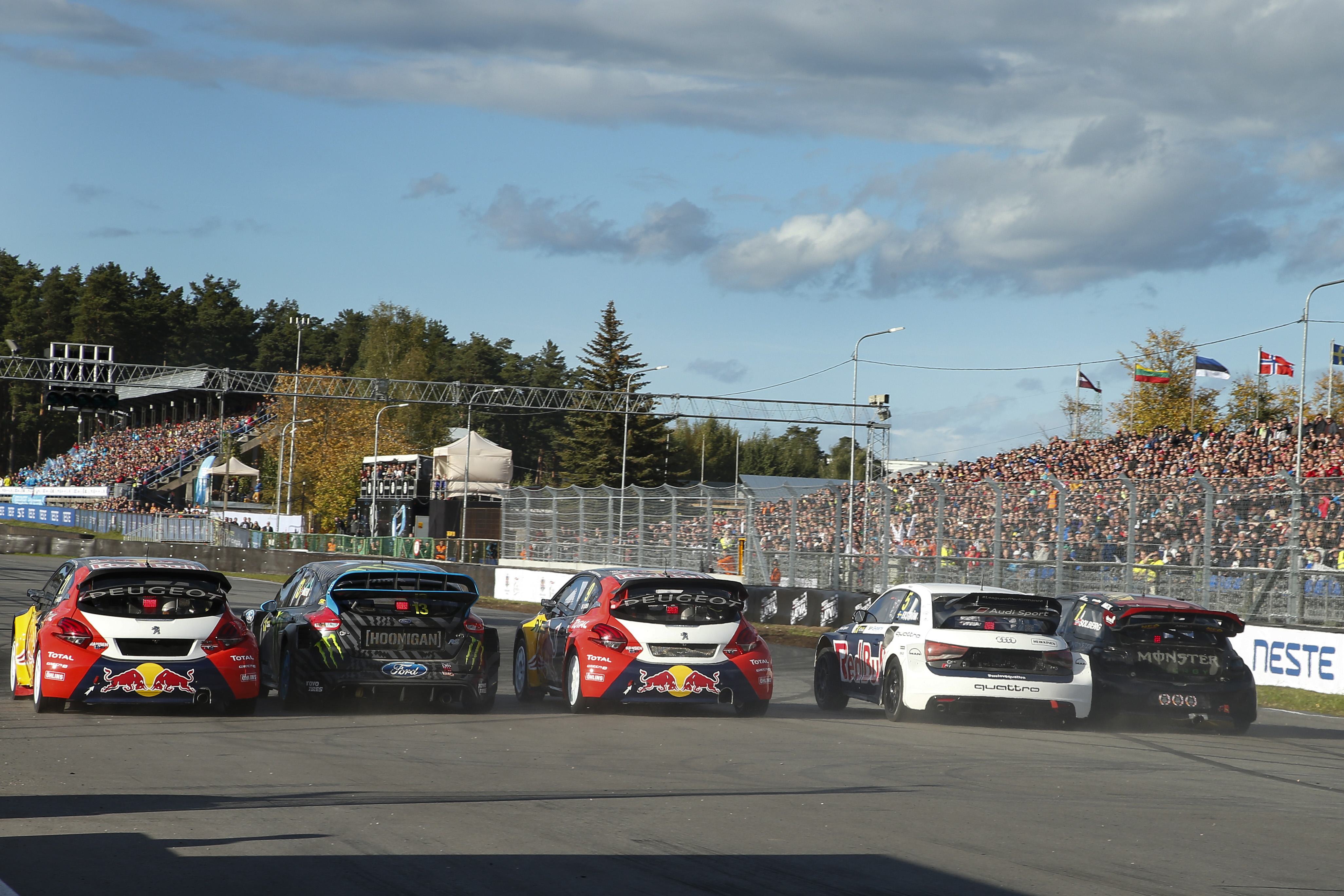 2016 FIA World RX Rallycross Championship / Round 10, Riga, Latvia, October 1-2 2016 // Worldwide Copyright:Tony Welam/EKS/McKlein